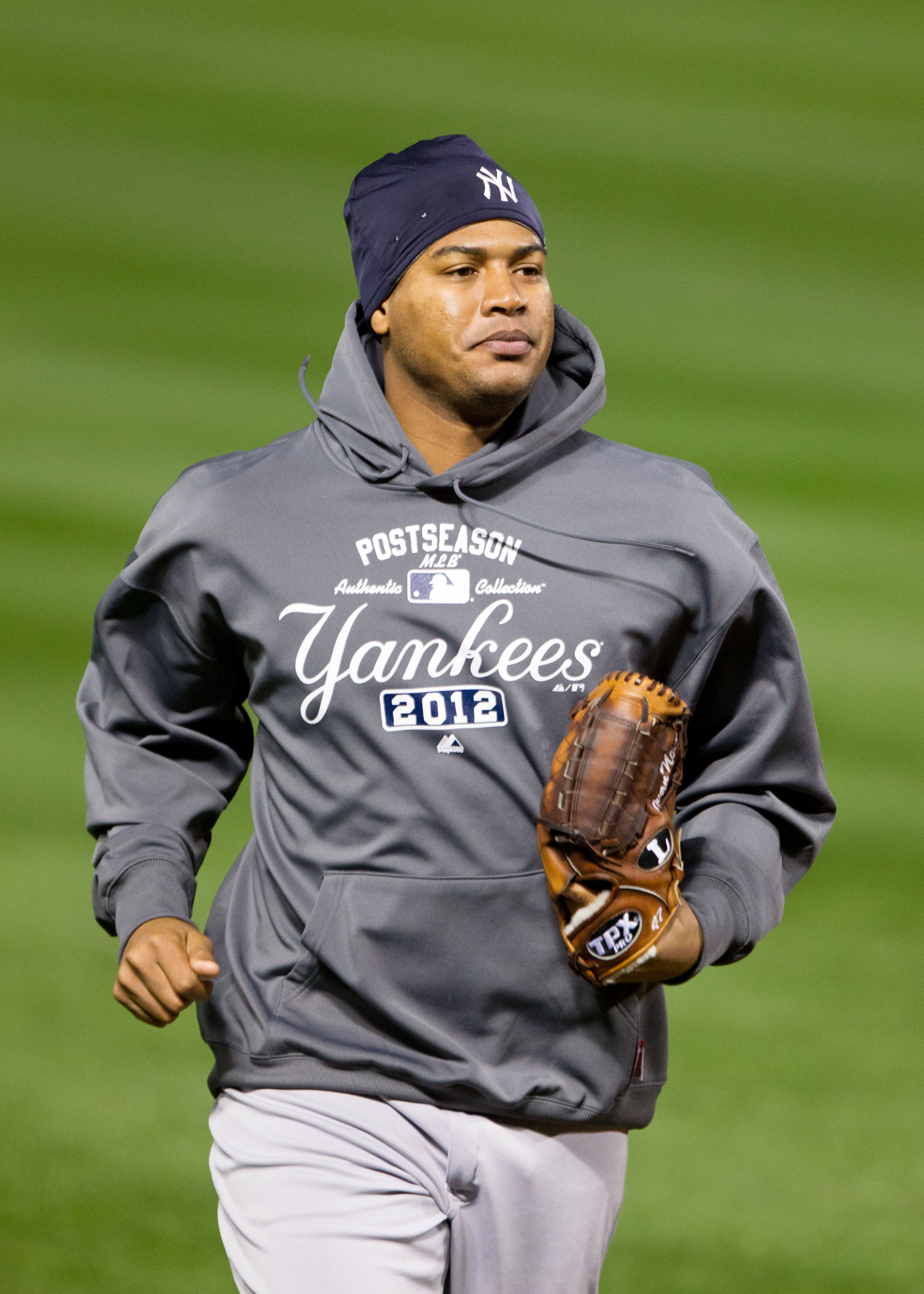 New York Yankees at Baltimore Orioles. ALDS Game 2. October 8, 2012.